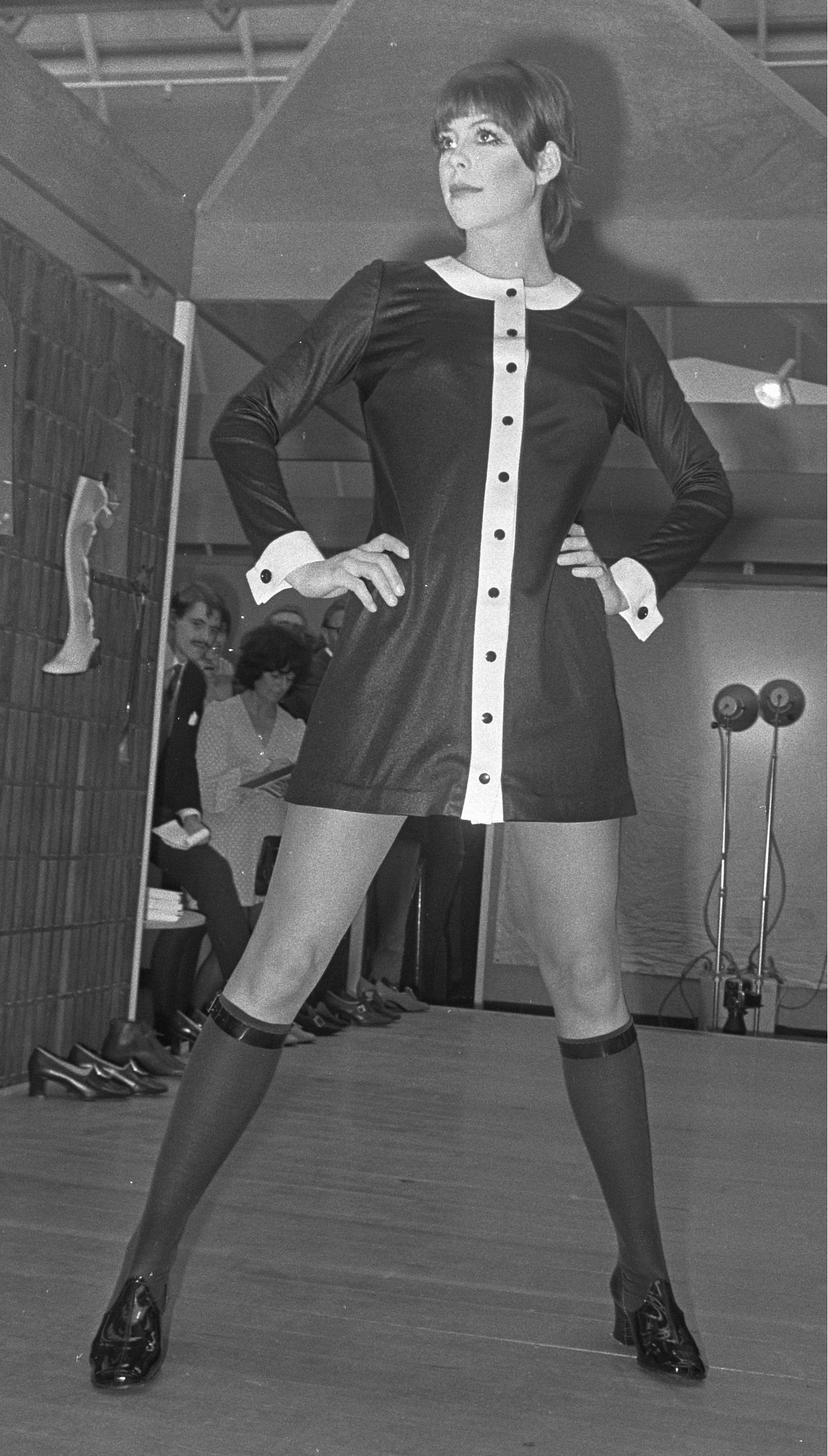 Micro-mini dress called "Diabolo" worn with shoes and sheer pop socks. Shot of a Mary Quant fashion show in Utrecht